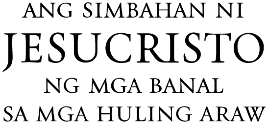 Logo of The Church of Jesus Christ of Latter-day Saints in Tagalog